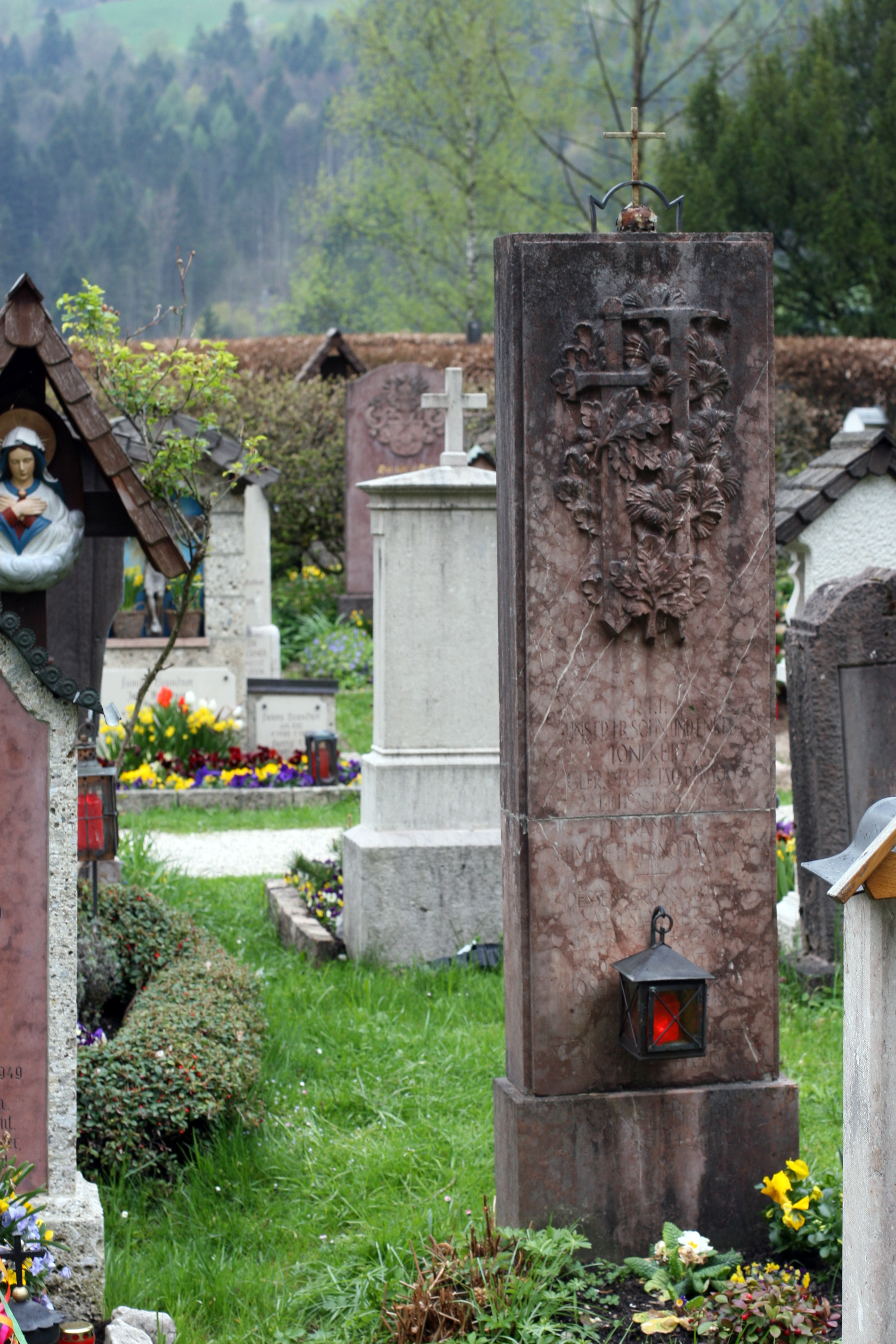 German mountain climber Toni Kurz' grave in Berchtesgaden, Germany